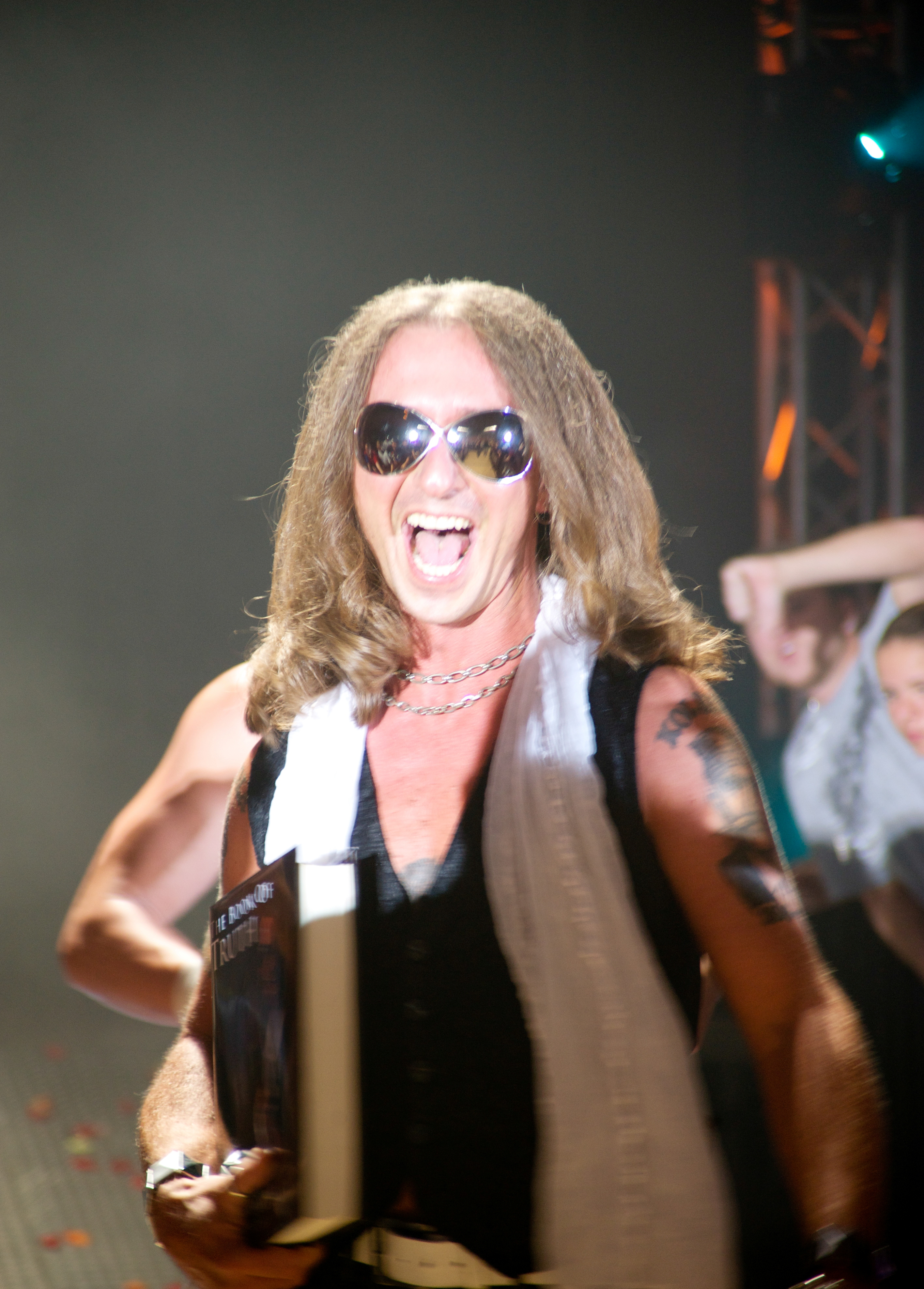 Truth Martini at a Ring of Honor show in 2011.